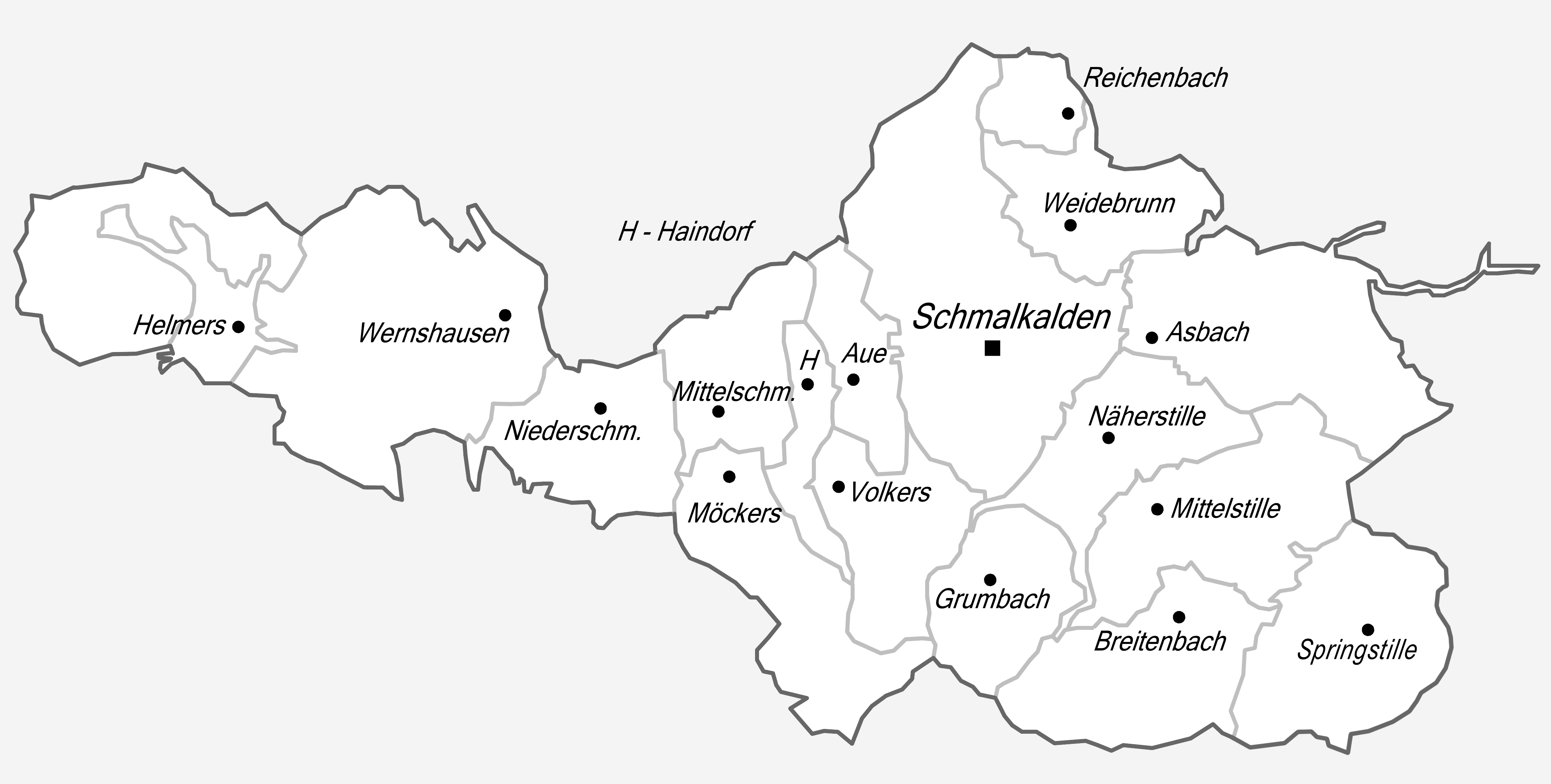 District-Maps of Schmalkalden